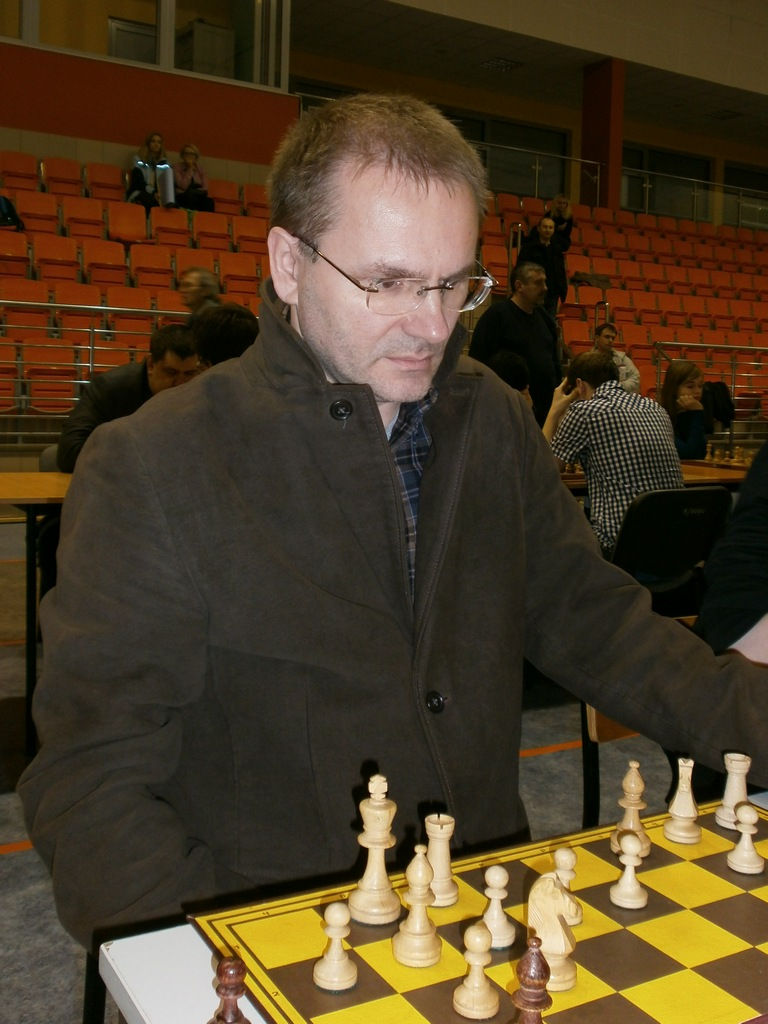 Klaudiusz Urban playing in the Ferdynand Dziedzic Memorial in Trzcianka